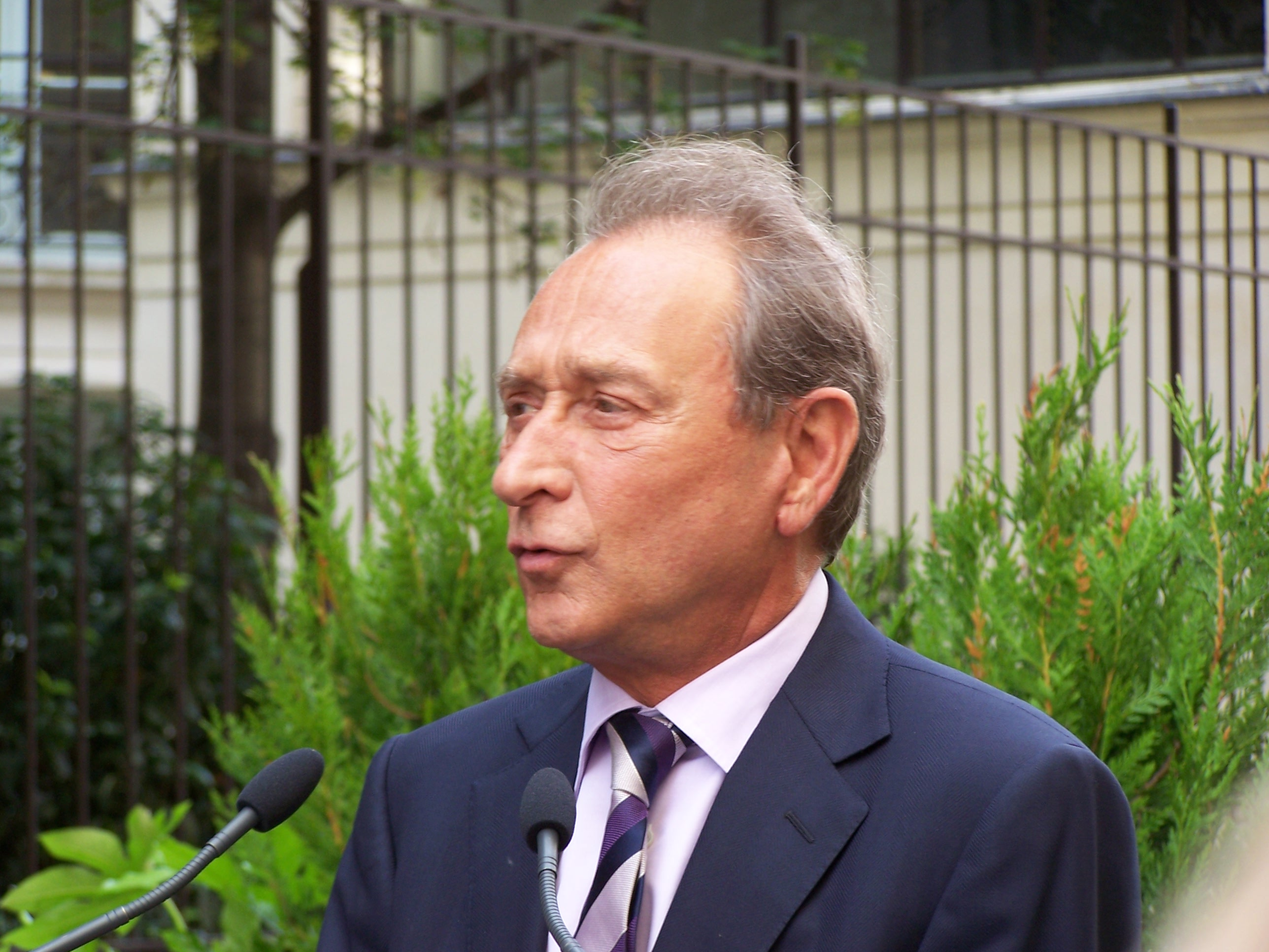 The mayor of Paris and french socialist Bertrand Delanoë during the inauguration of rue Gaston-Gallimard.